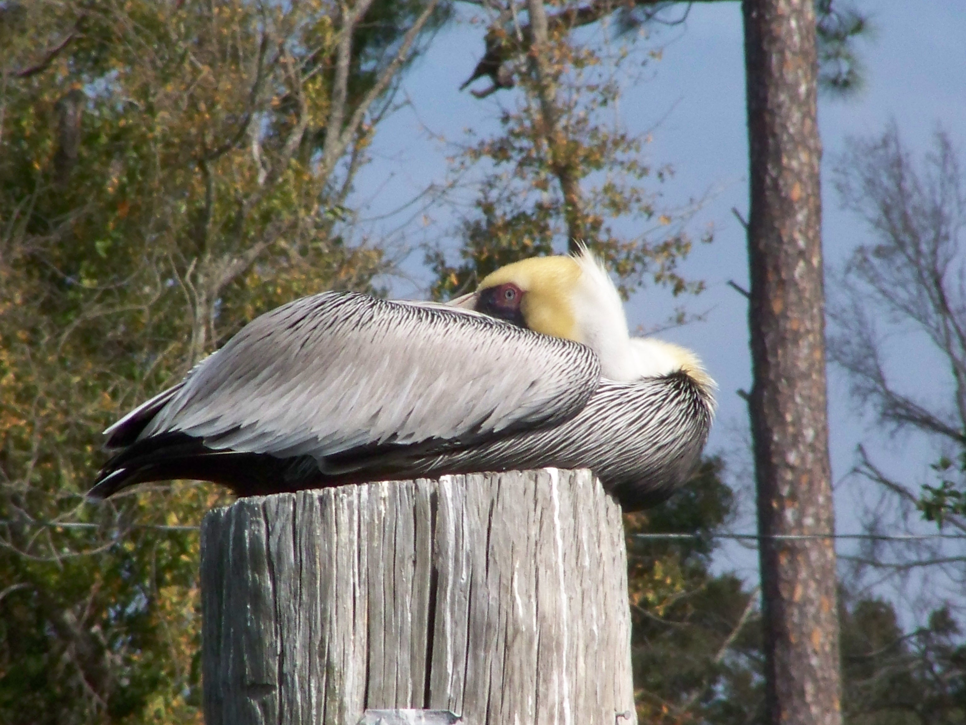 Brown Pelican in Ocean Springs, Mississippi